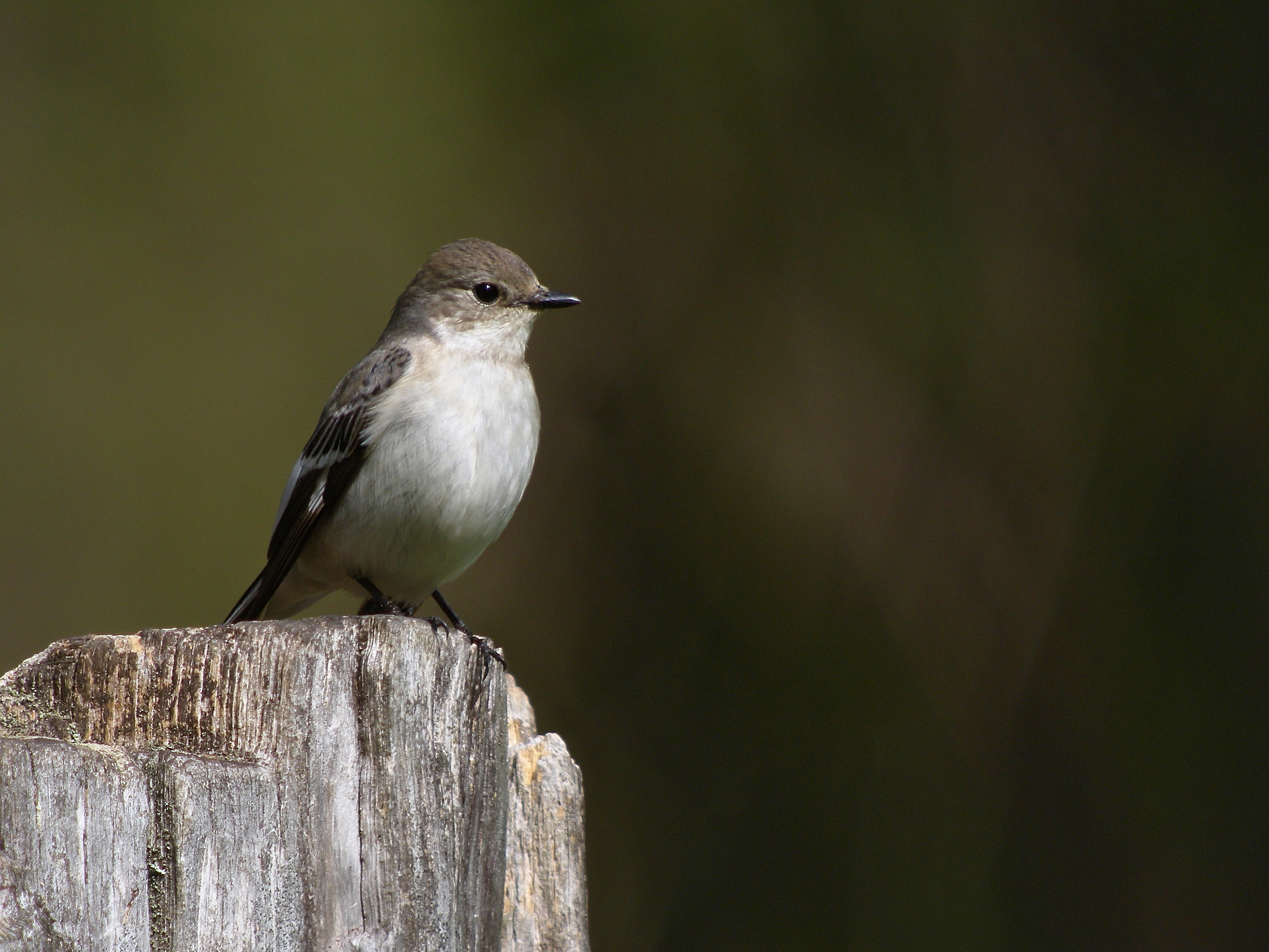 A female of Collared Flycatcher (Ficedula albicollis) hunting for insects in the Palace Park of Białowieża. Photograph taken by digiscoping with Swarovski ATM 80 HD 30 X, Coolpix P6000 (Adapter DCB)